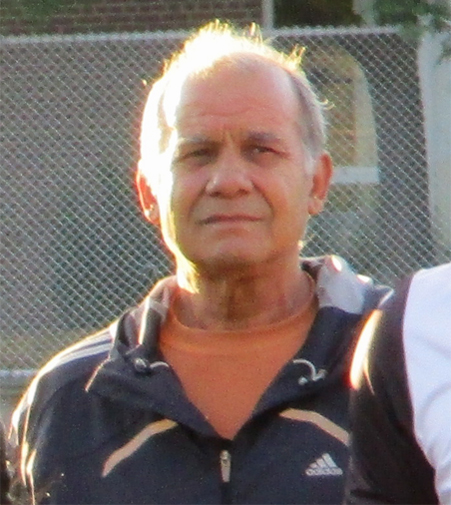 PAOK Veterans Association president Filotas Pellios during a PAOK Veterans friendly match against Homer FC in Toronto.